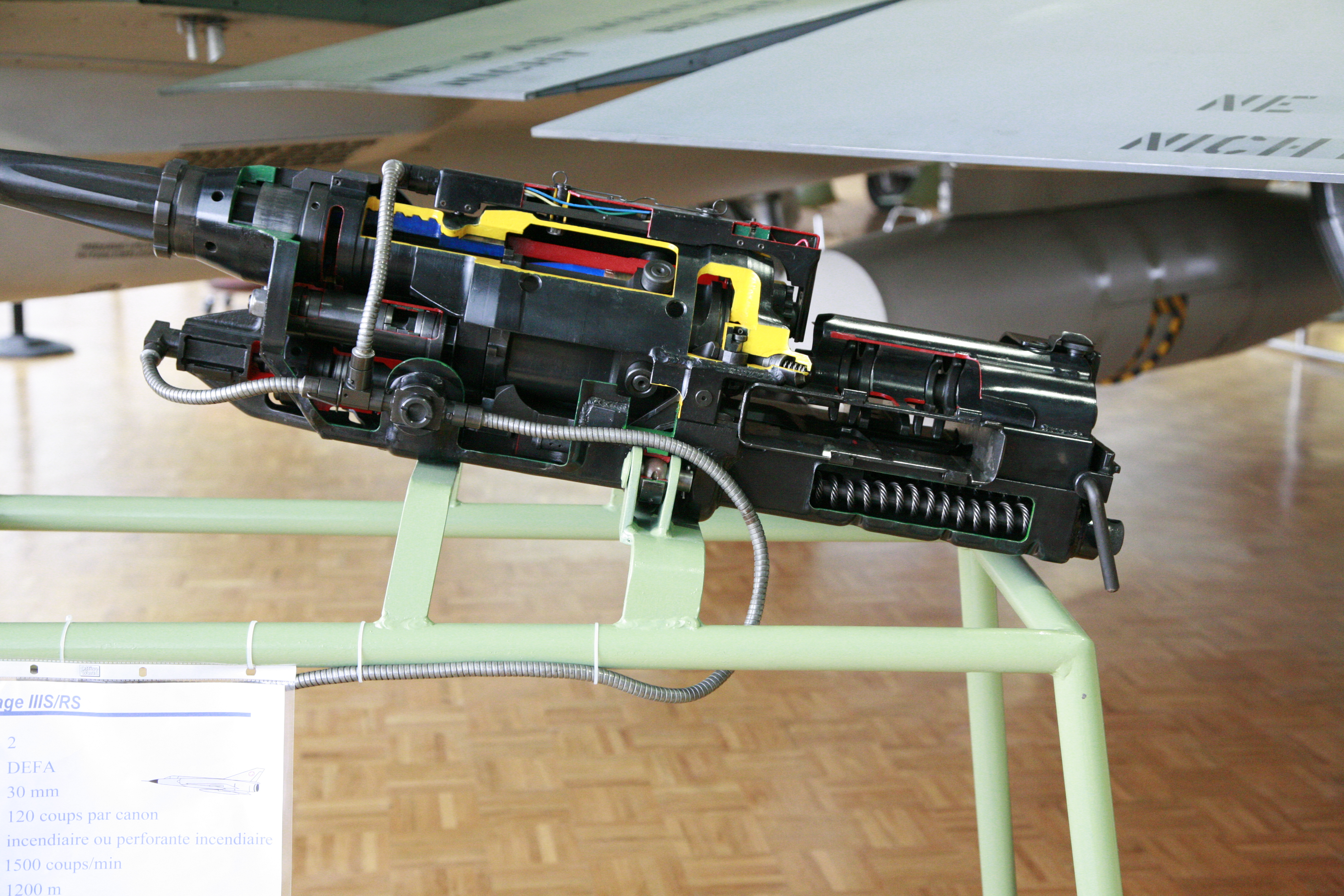 DEFA cannon